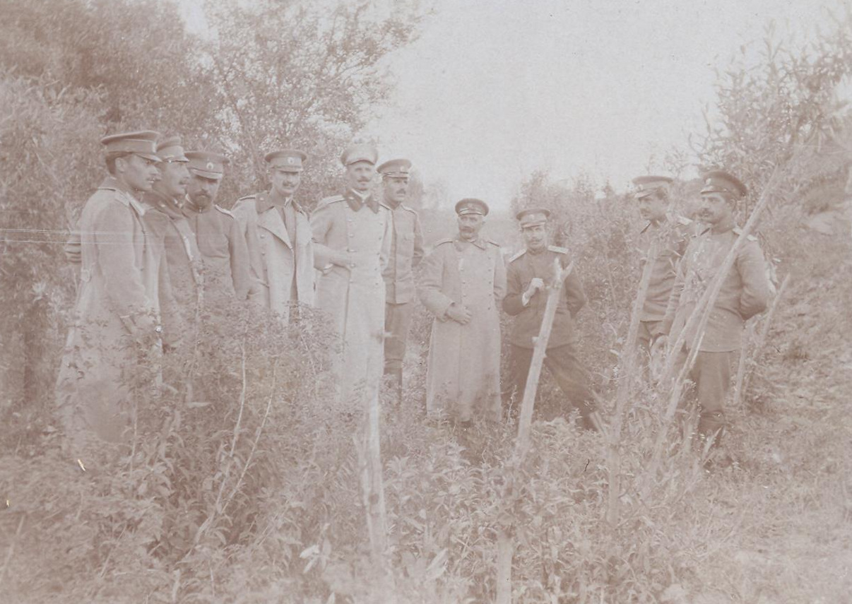 37-th Pirin Infantry Regiment, Bulgaria, World War I)